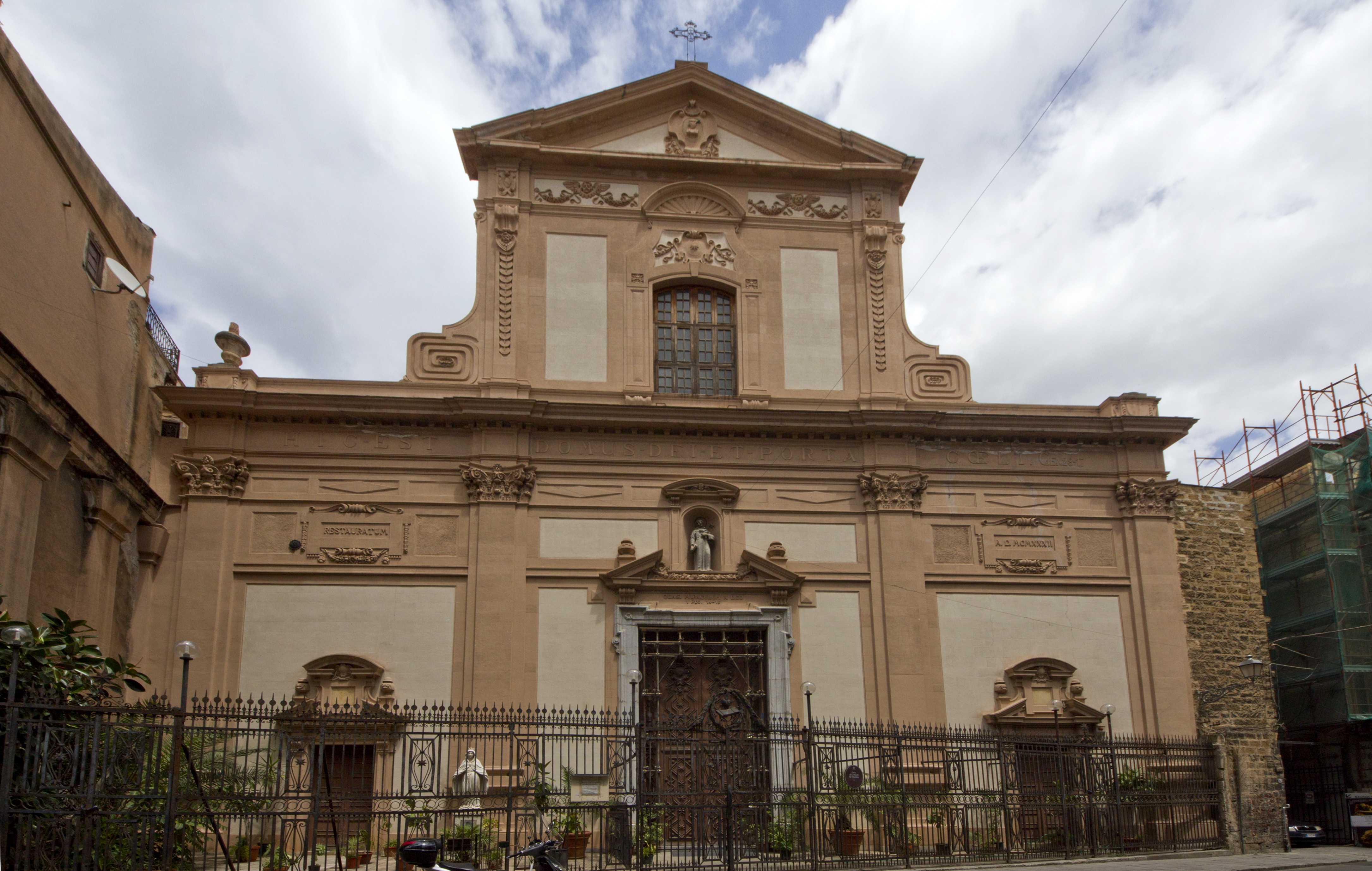 Albergheria, Palermo, Italy